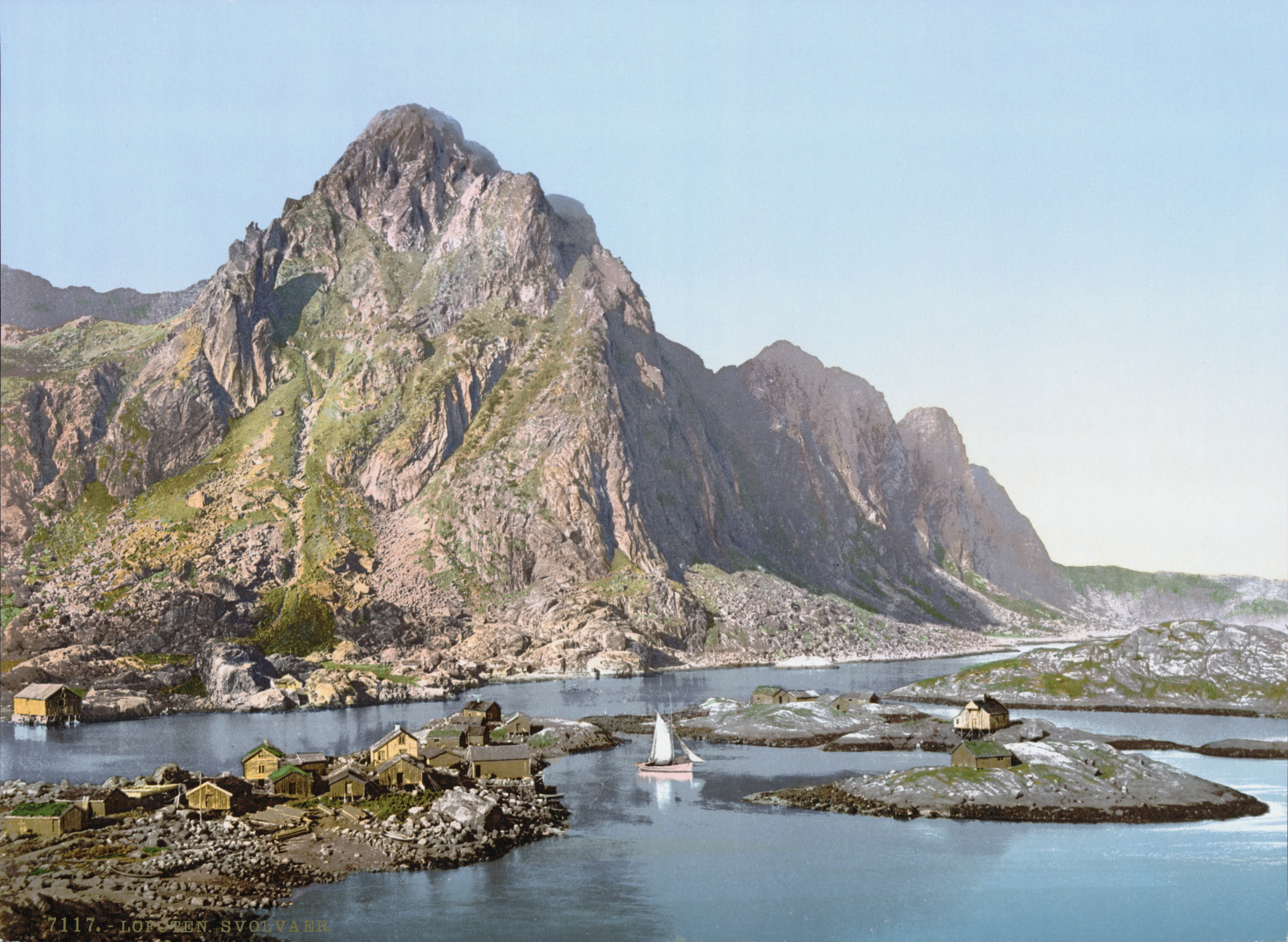 Svolvaer, Lofoten, Norway